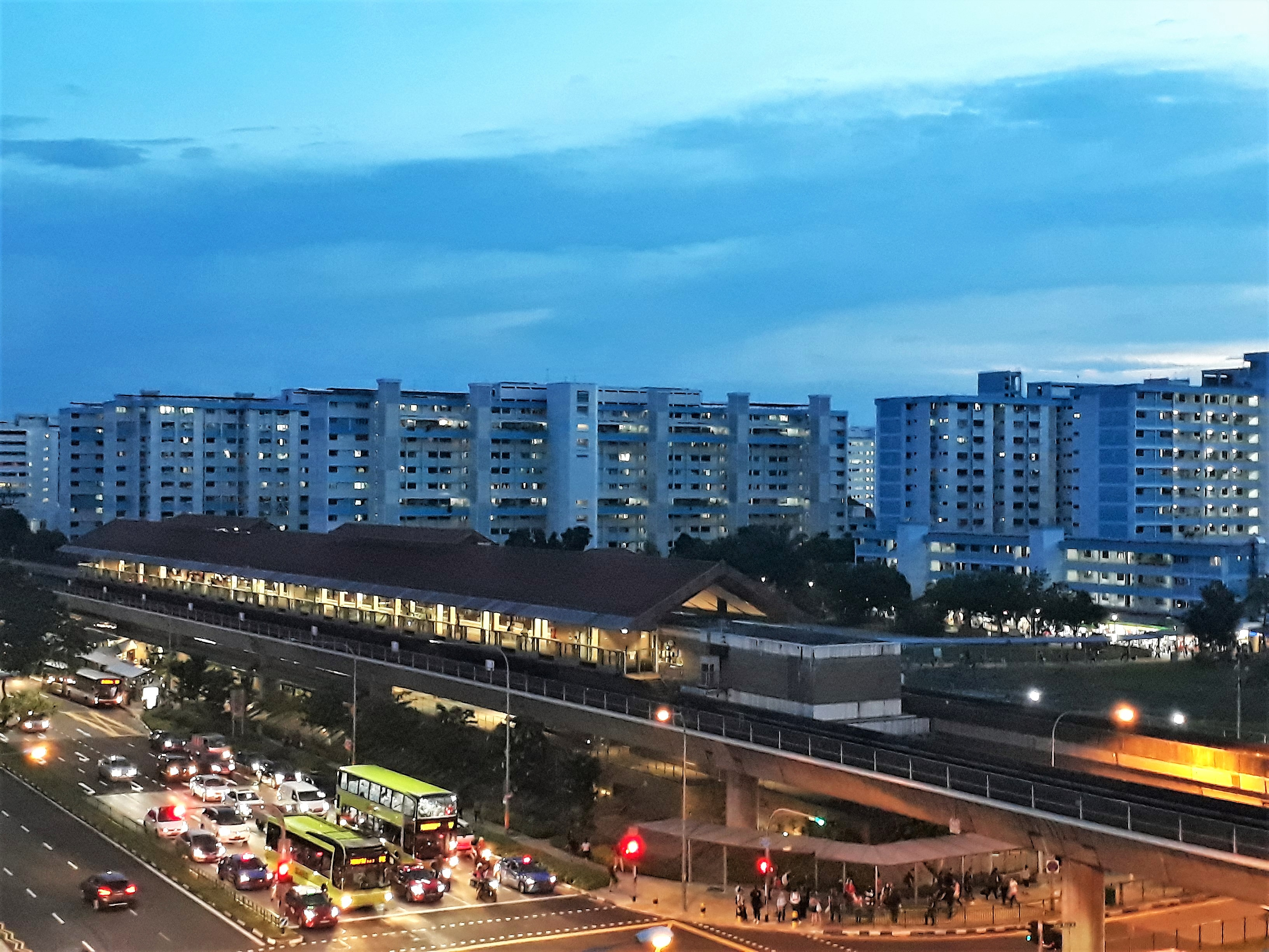 Exterior of Yishun station